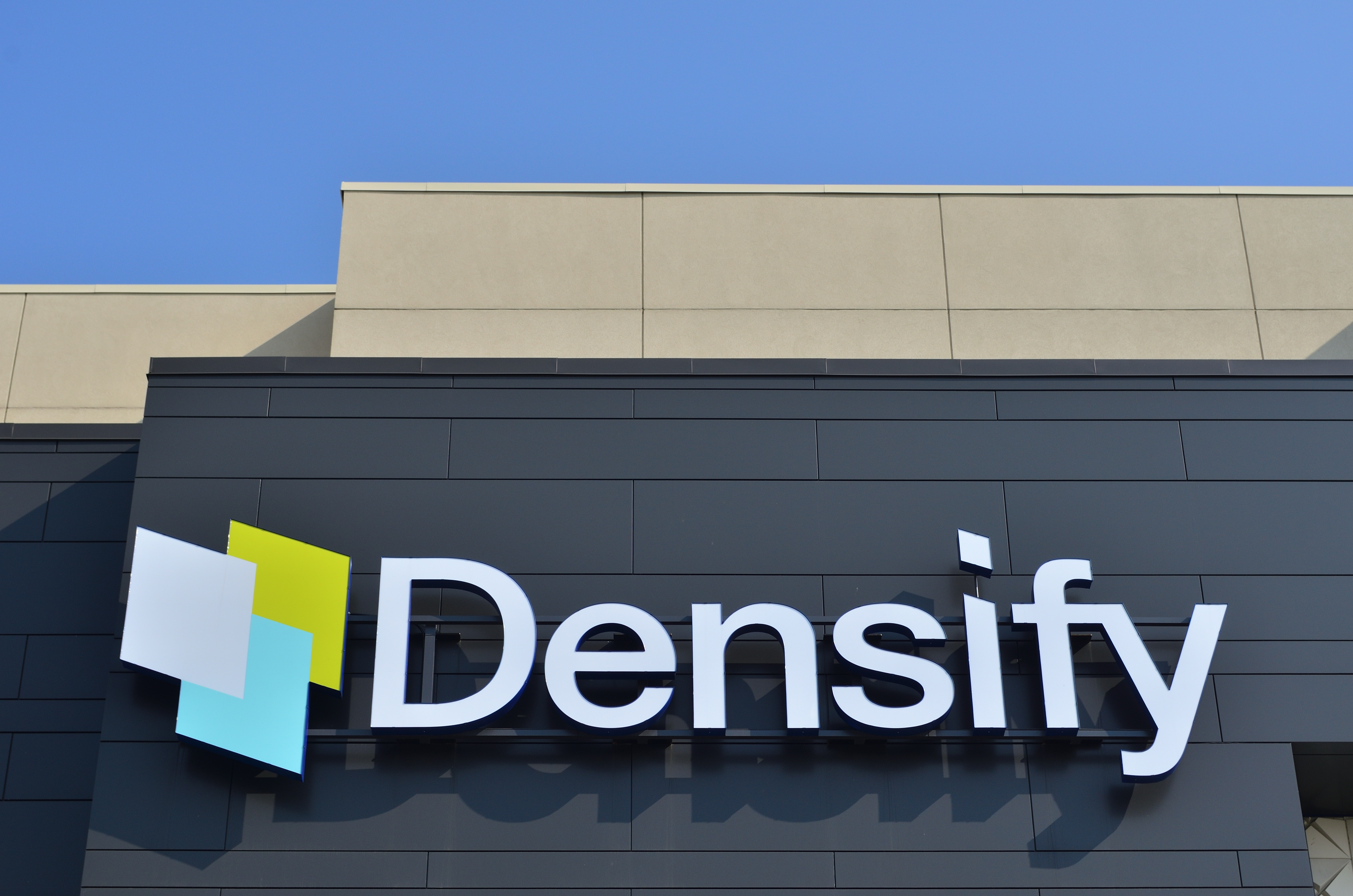 Densify Markham office